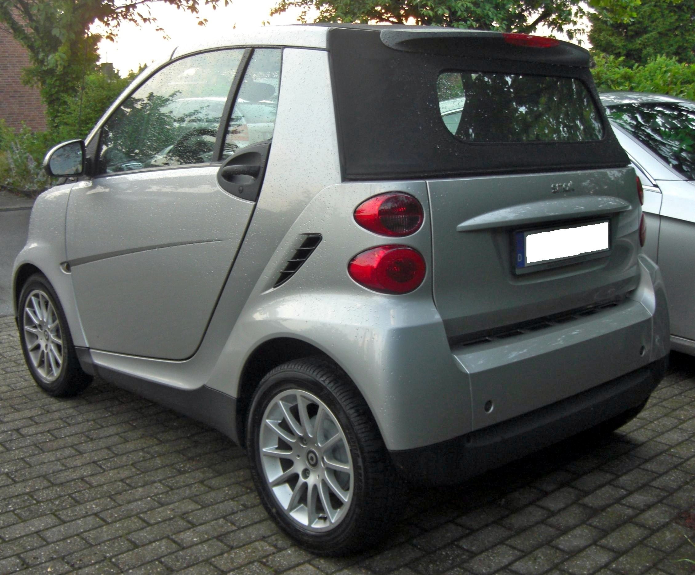 Smart Fortwo Cabrio (2nd gen)